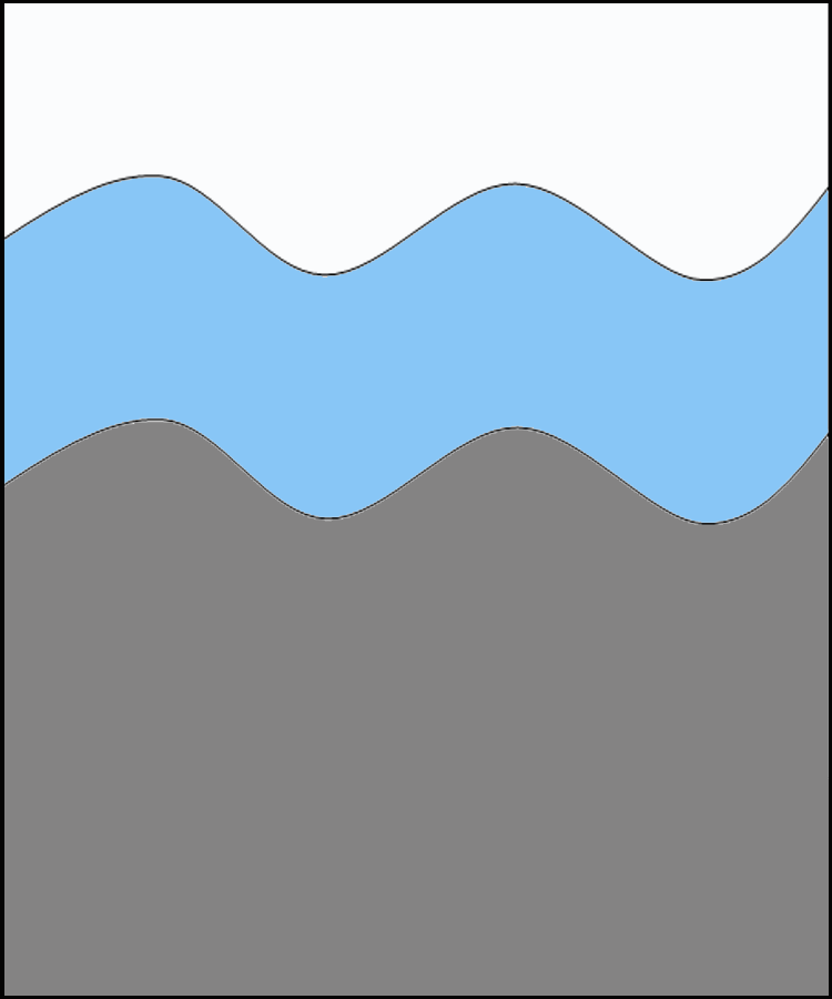 Demulsification